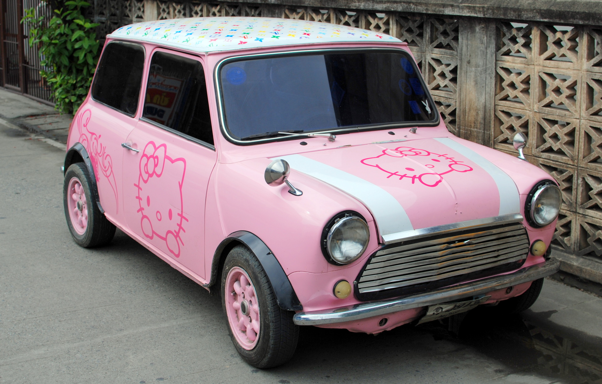 Hello Kitty and Louis Vuitton come together in this old Mini in Chiang Mai, Thailand.